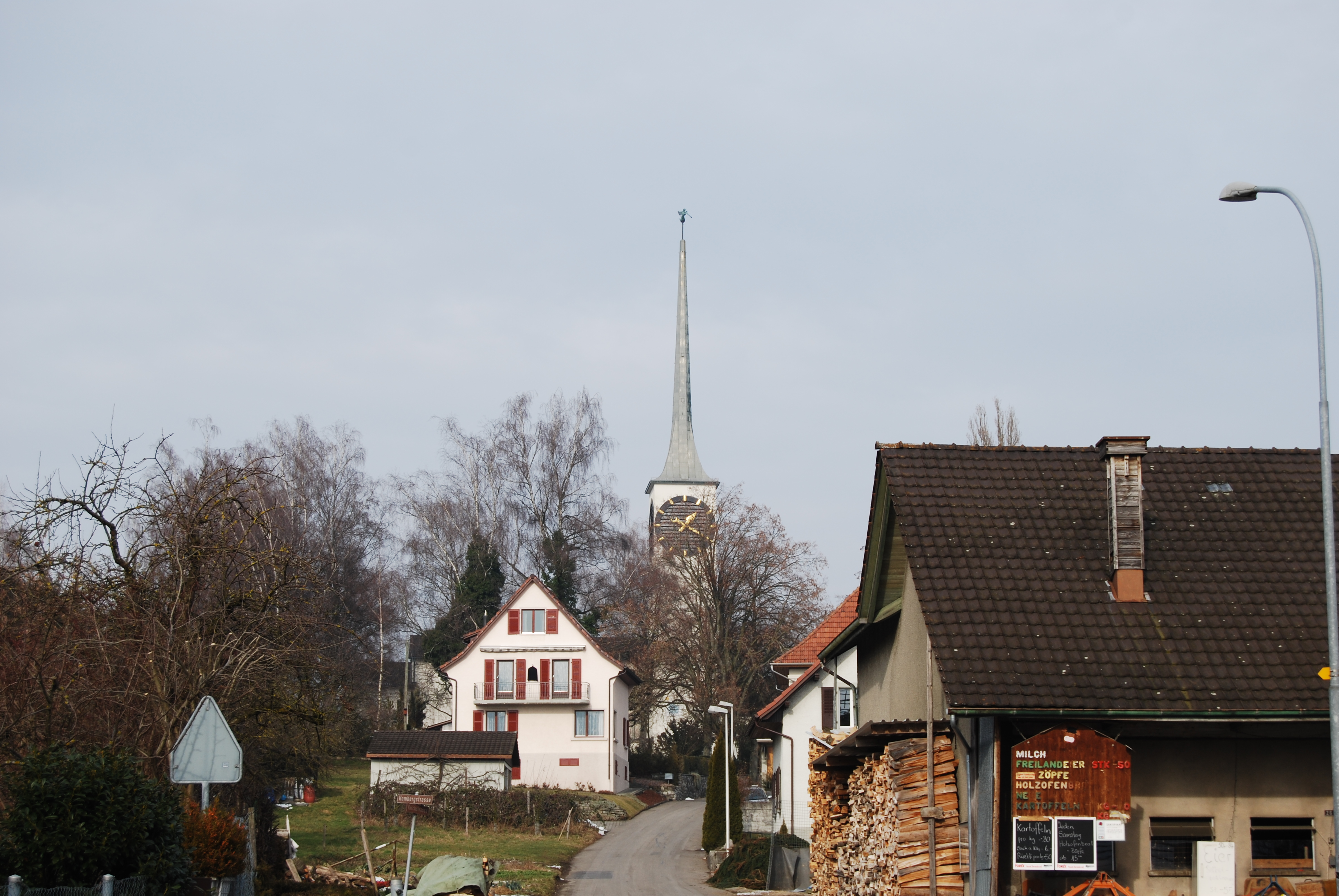 Church of Beinwil ĉe la lago, canton of Aargau, SwitzerlandEsperanto: Preĝejo de Beinwil am See, Kantono Argovio, Svislando